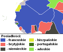 Polish language map - West Africa in 1898